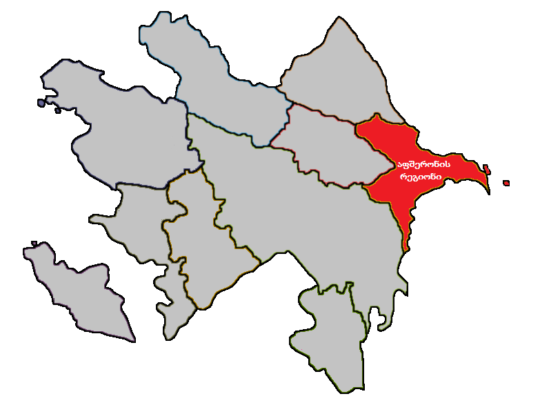 Aphsheron region.